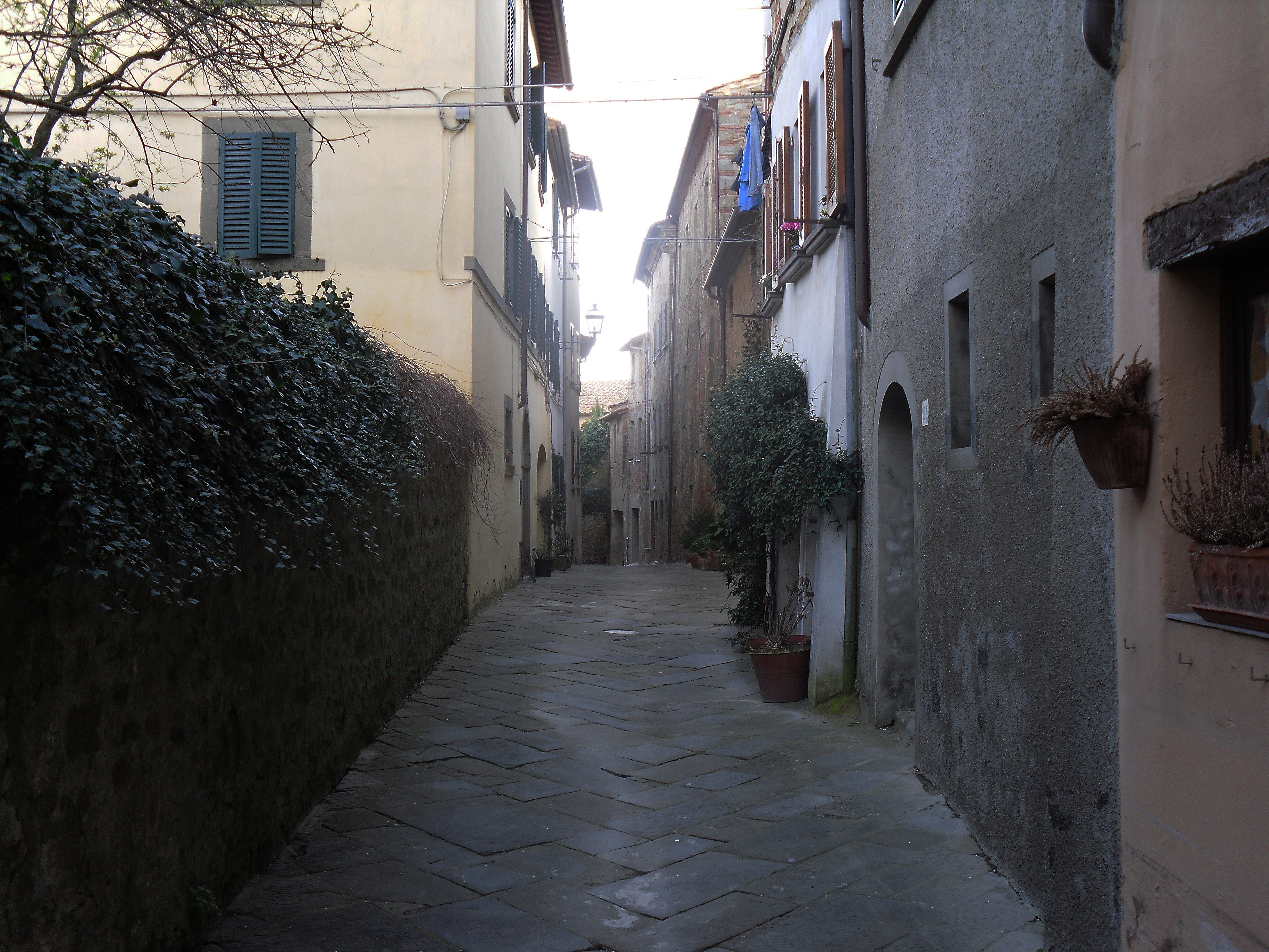 Via Salomone Fiorentino, the main street of the former Jewish ghetto of Monte San Savino (Province of Arezzo, Italy).